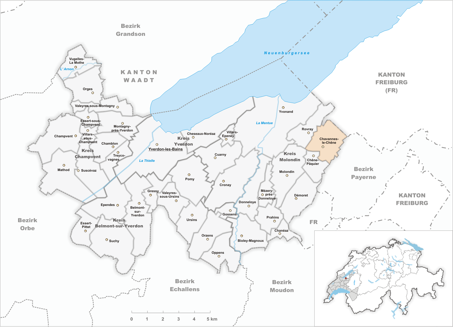 Municipality Chavannes-le-Chêne